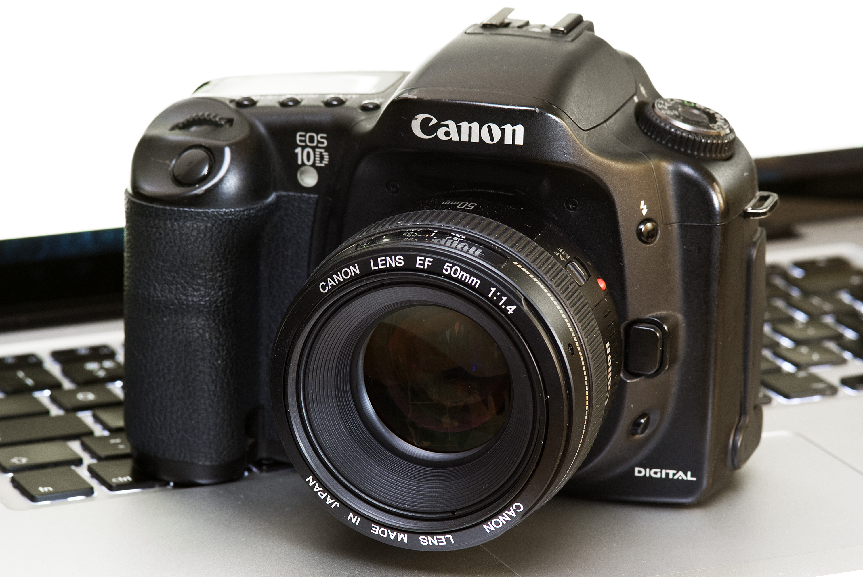 A Canon EOS 10D digital SLR.